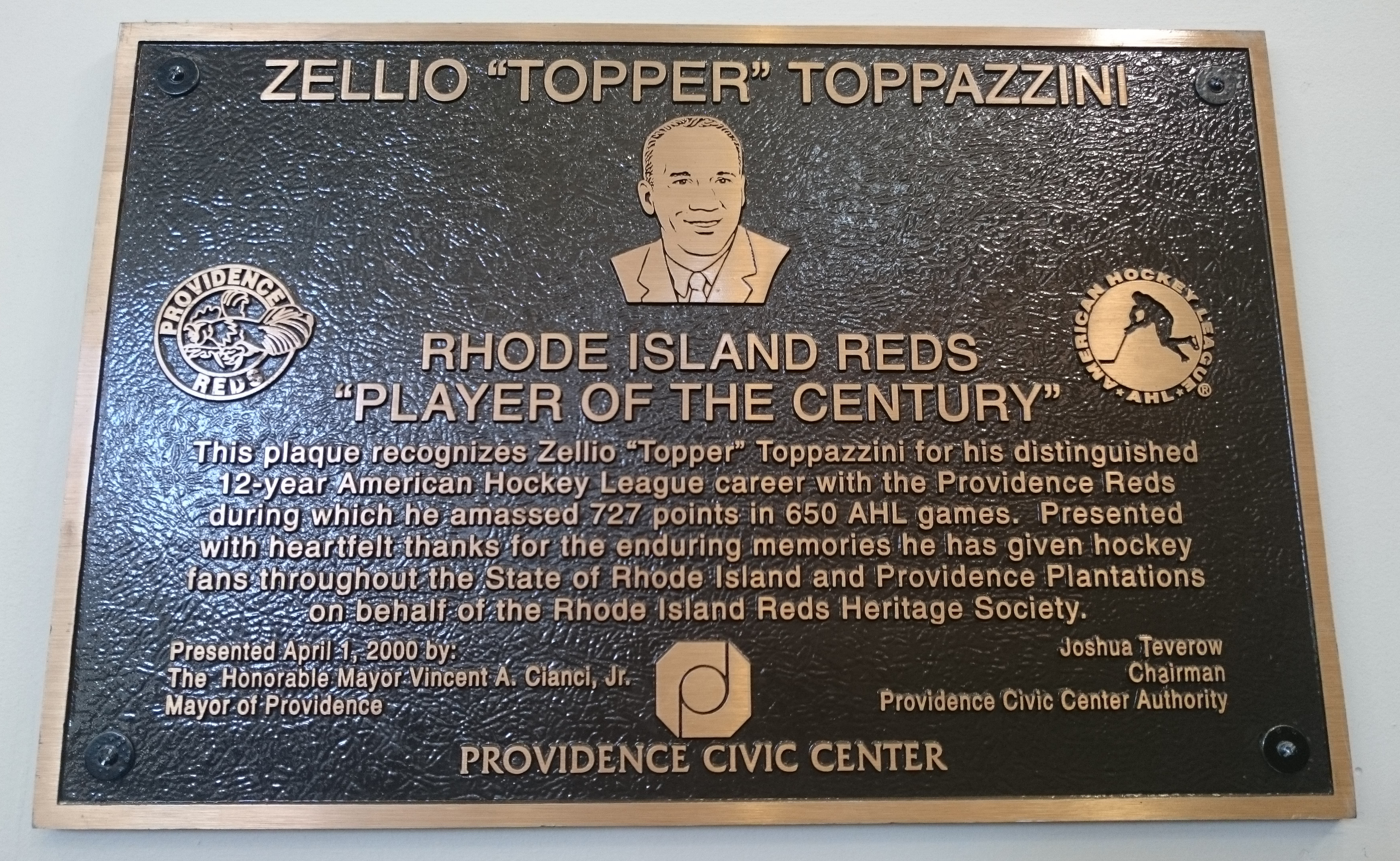 Plaque commemorating Zellio Toppazzini as the RI Reds Player of the Century